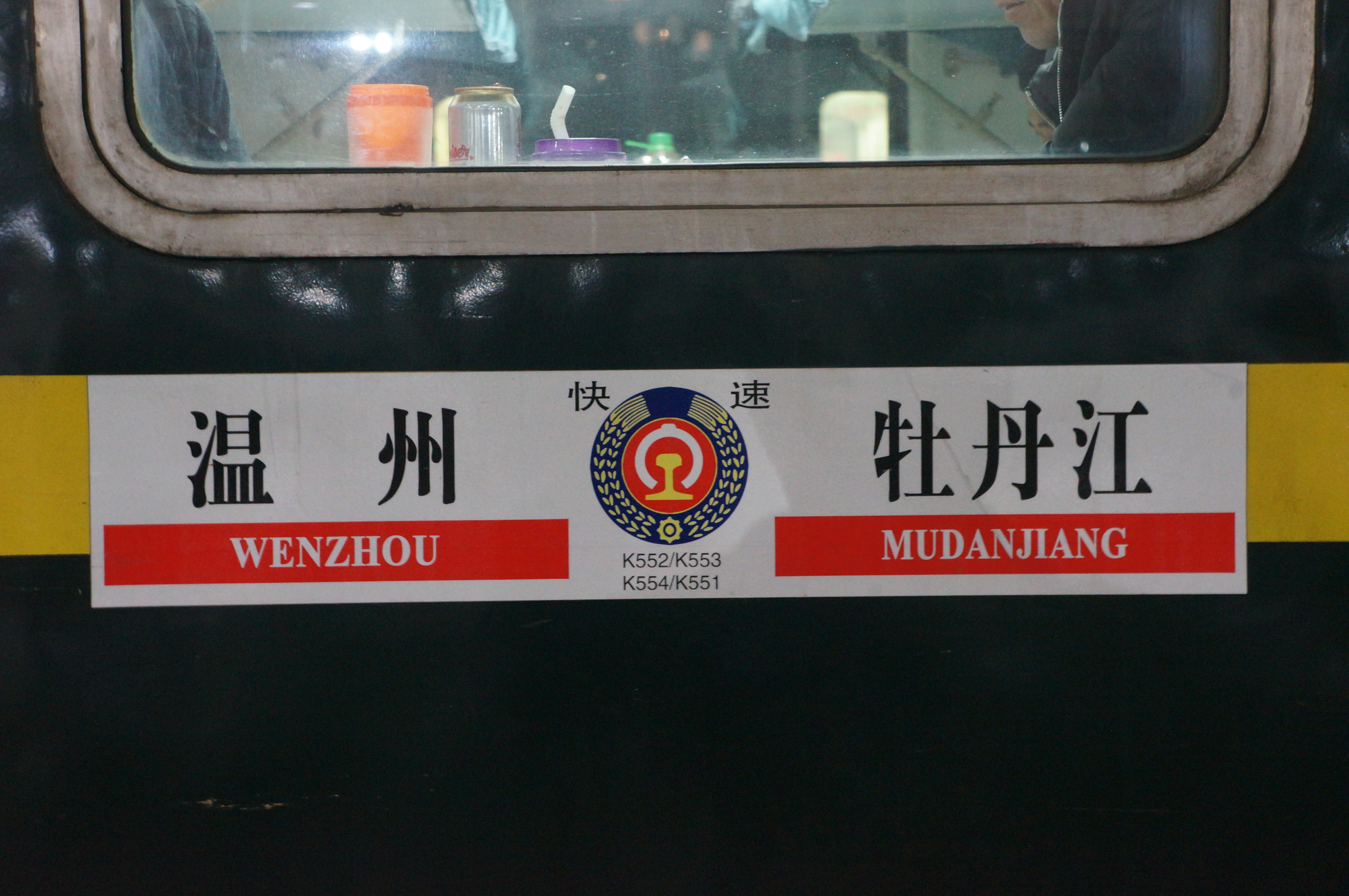 K551 2 3 4 infobaord in 201701. Taken at Jinhua Station after getting out of K1258 from Quzhou